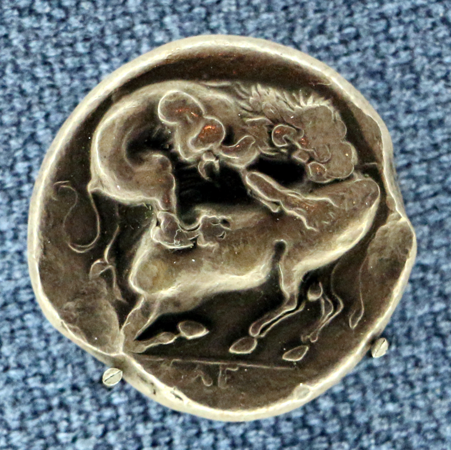 Ancient Greek coins in Palazzo Blu (Pisa)